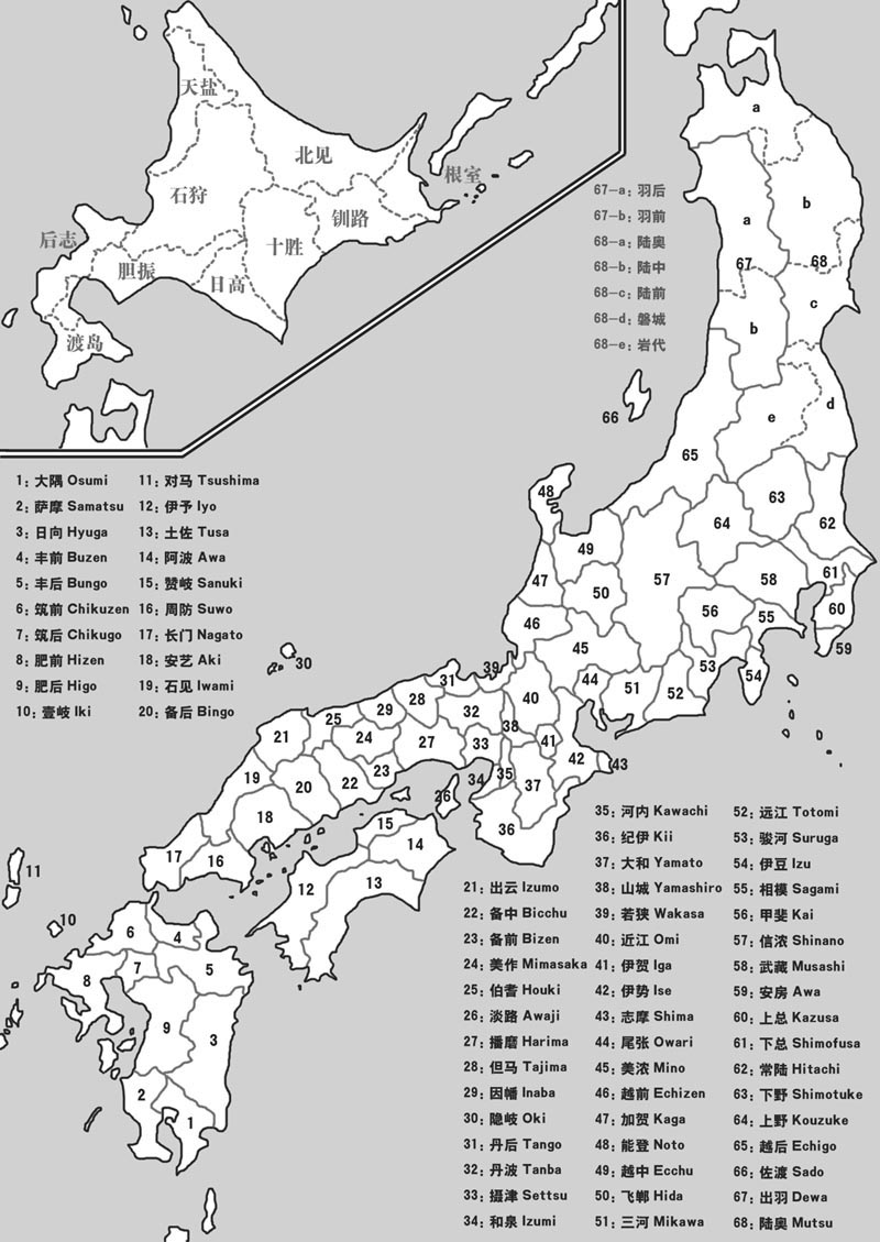 Ancient provinces of Japan